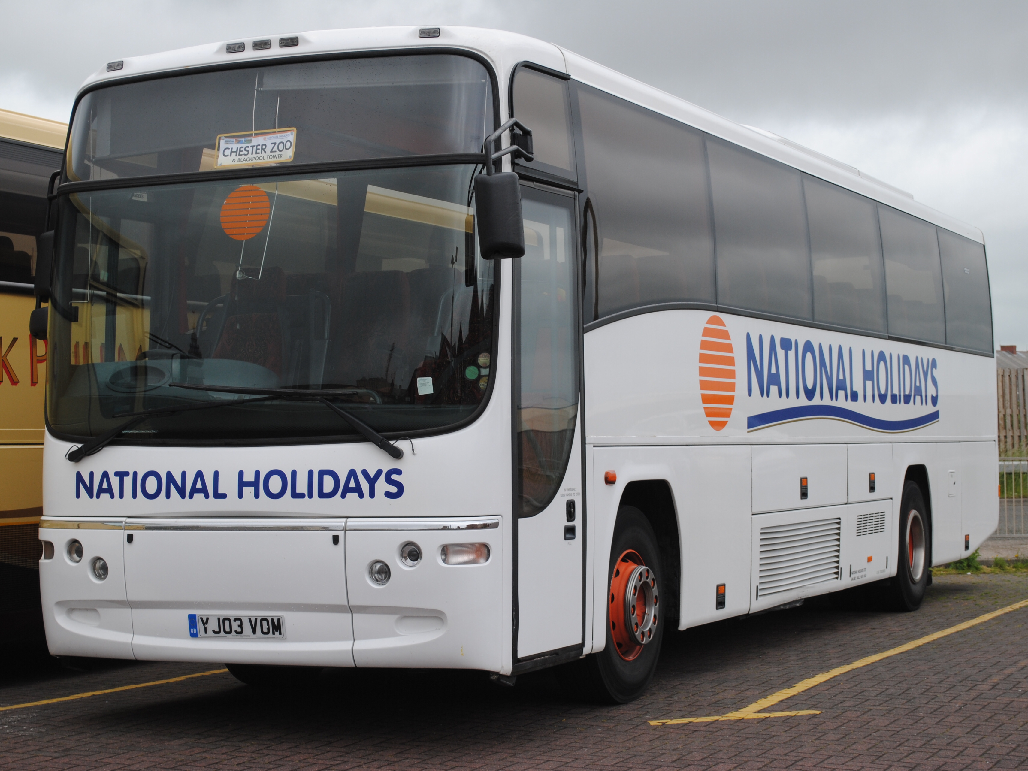 Volvo B12M Plaxton Paragon. seen here in Blackpool